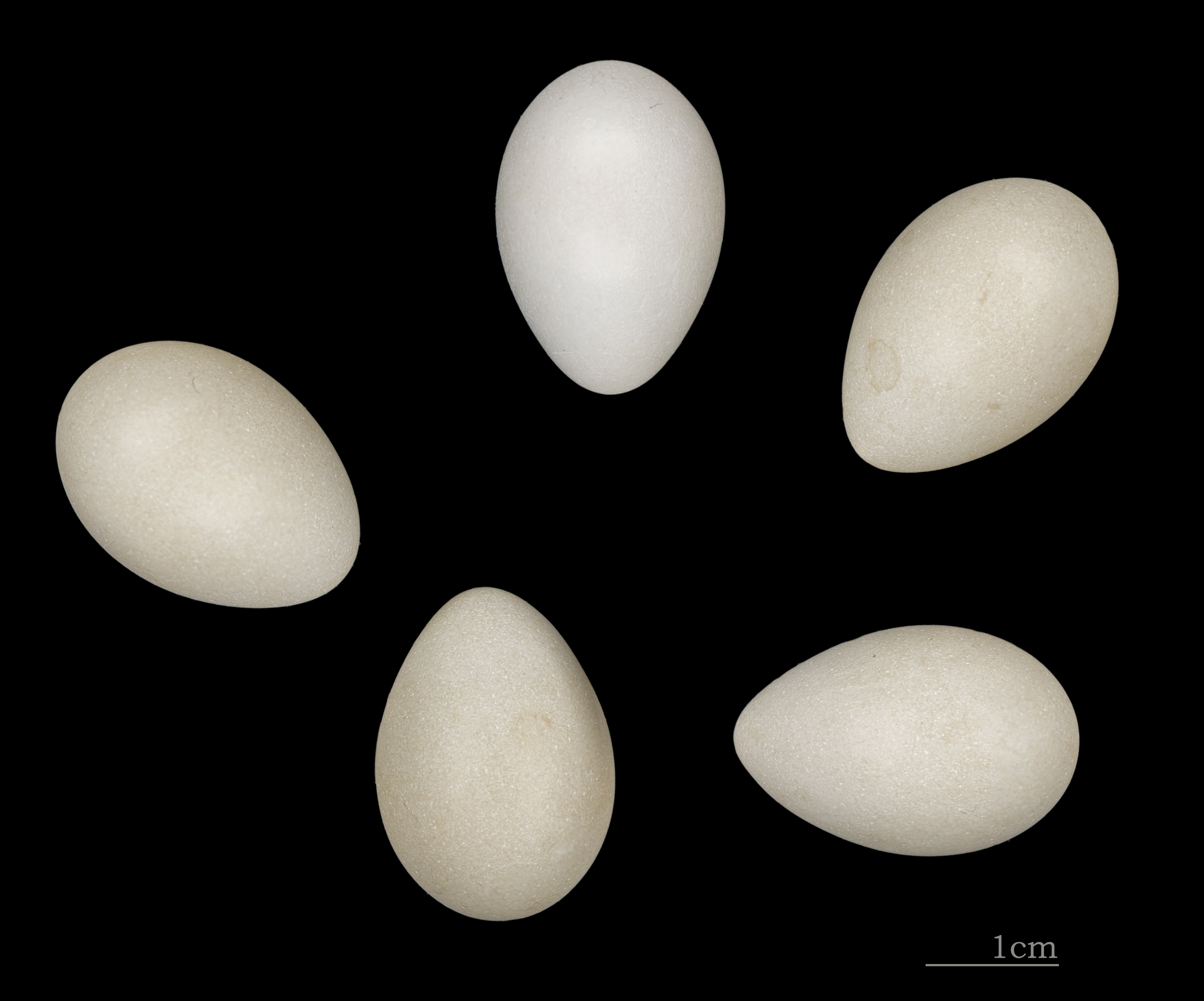 Egg of Hoopoe. Collection of Jacques Perrin de Brichambaut.